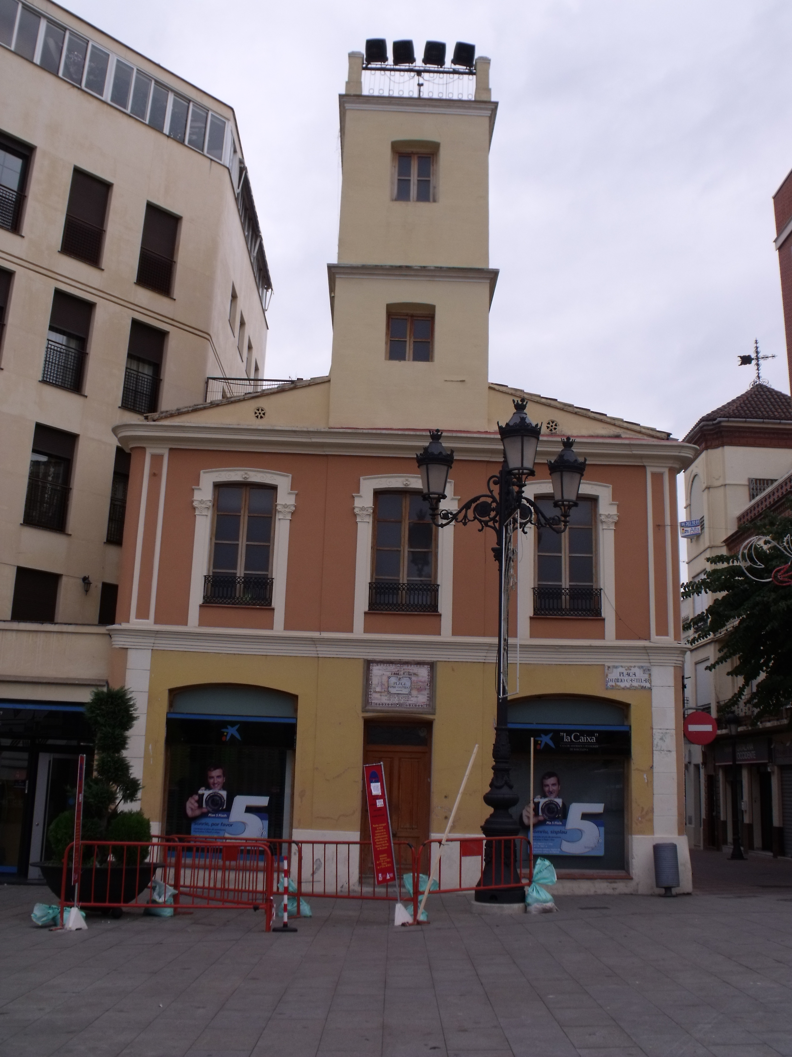 Public library. Burjassot, Spain.